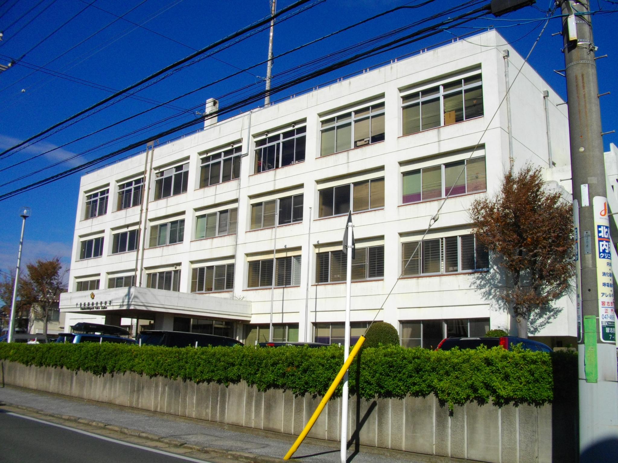 Funabashi-Higashi Police Station